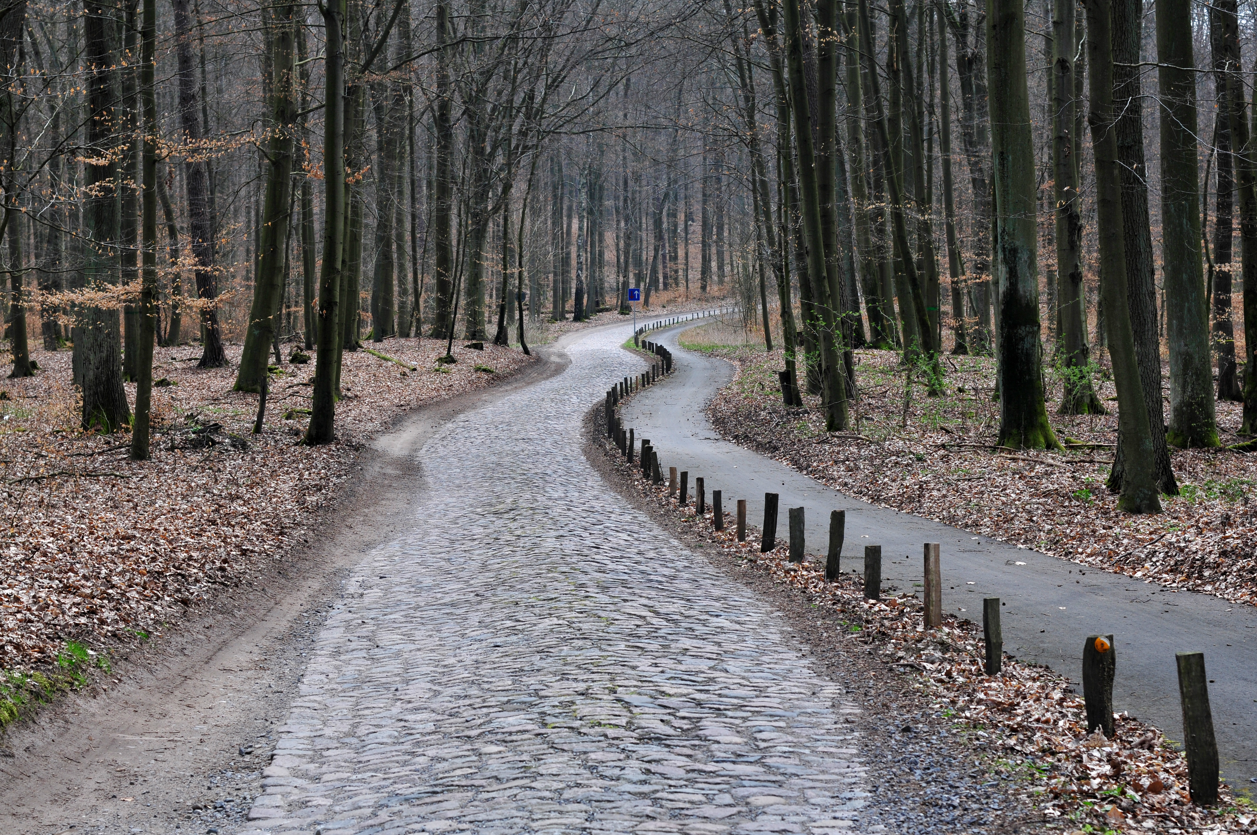 600 year old Street in Forest near Senftenhütte, Germany